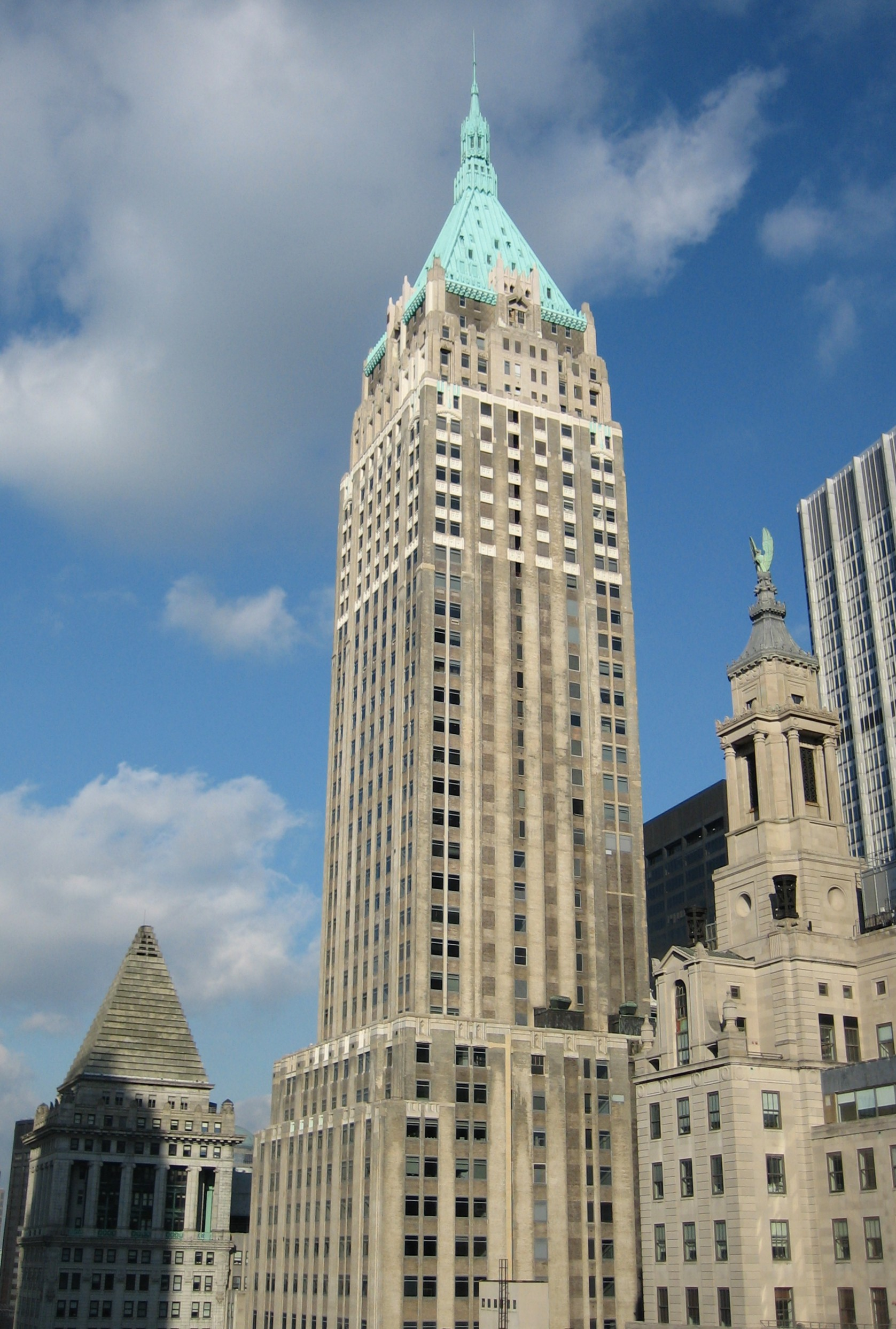 en:40 Wall Street, upper section